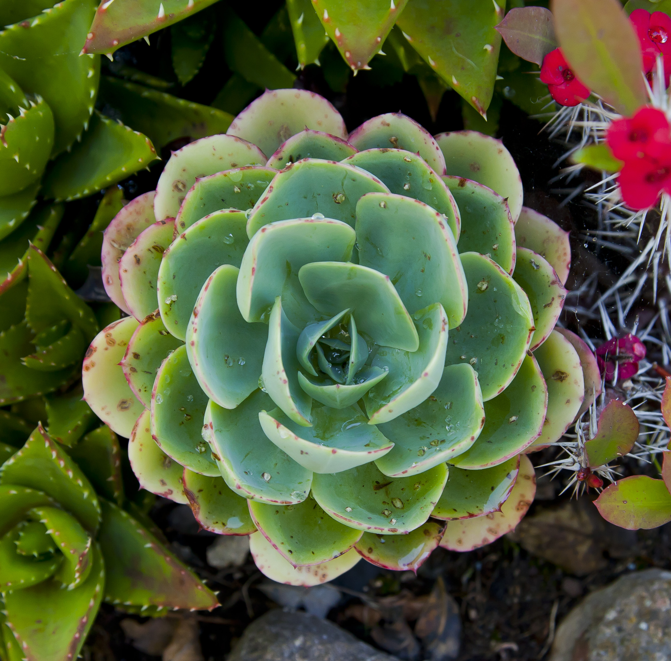 Mexican Gem (Echeveria elegans), mill garden, Sierra of Saint Philip, Setubal, Portugal